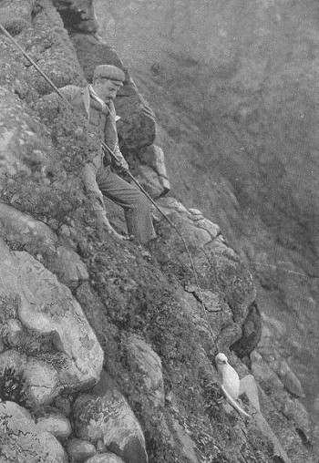 Ferguson fowling on Borrera